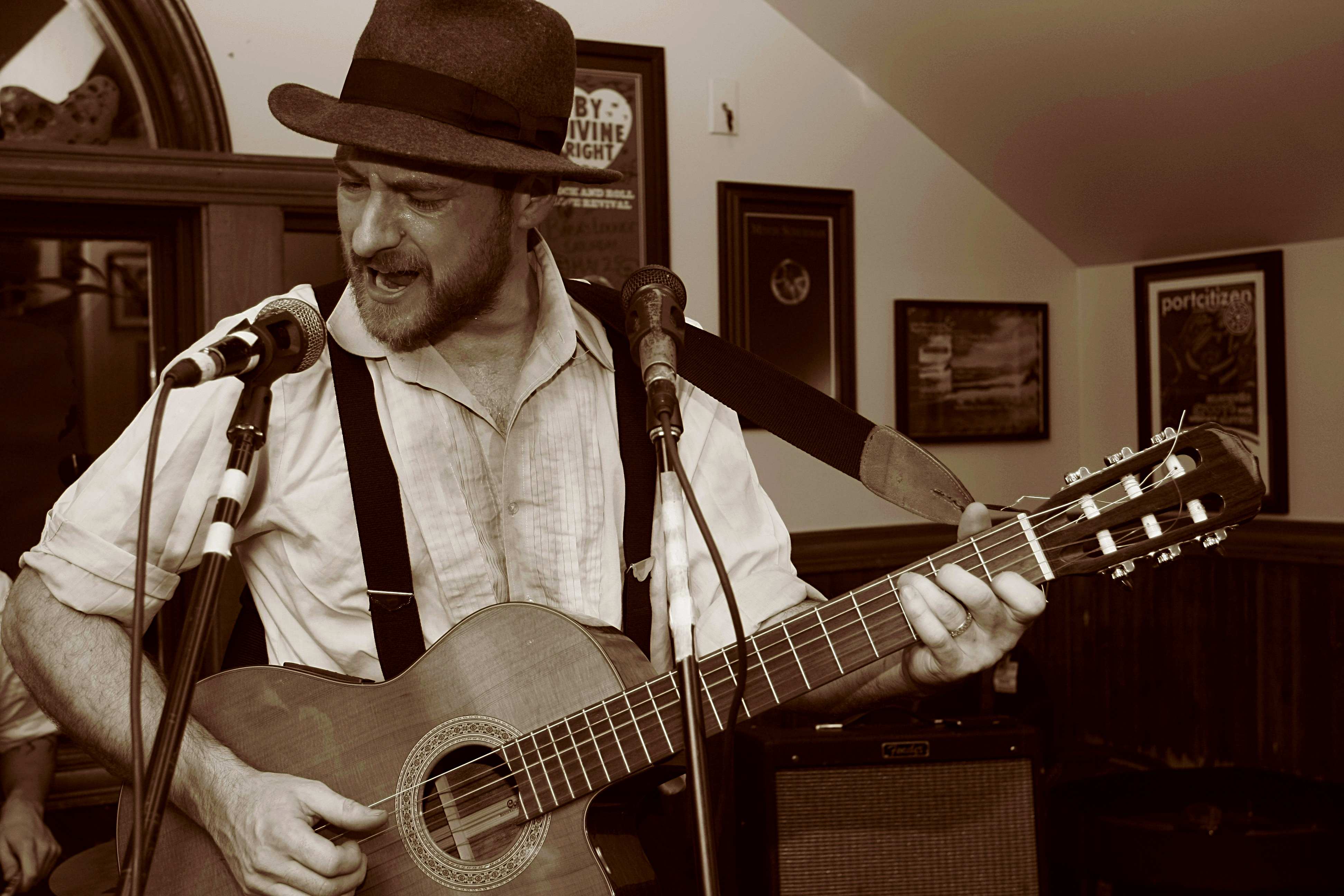 Wax Mannequin